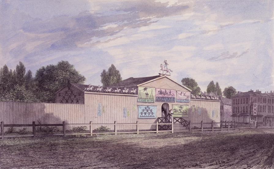 Exterior view (1777) of the Amphitheatre of Astley's circus. Hand-coloured etching.